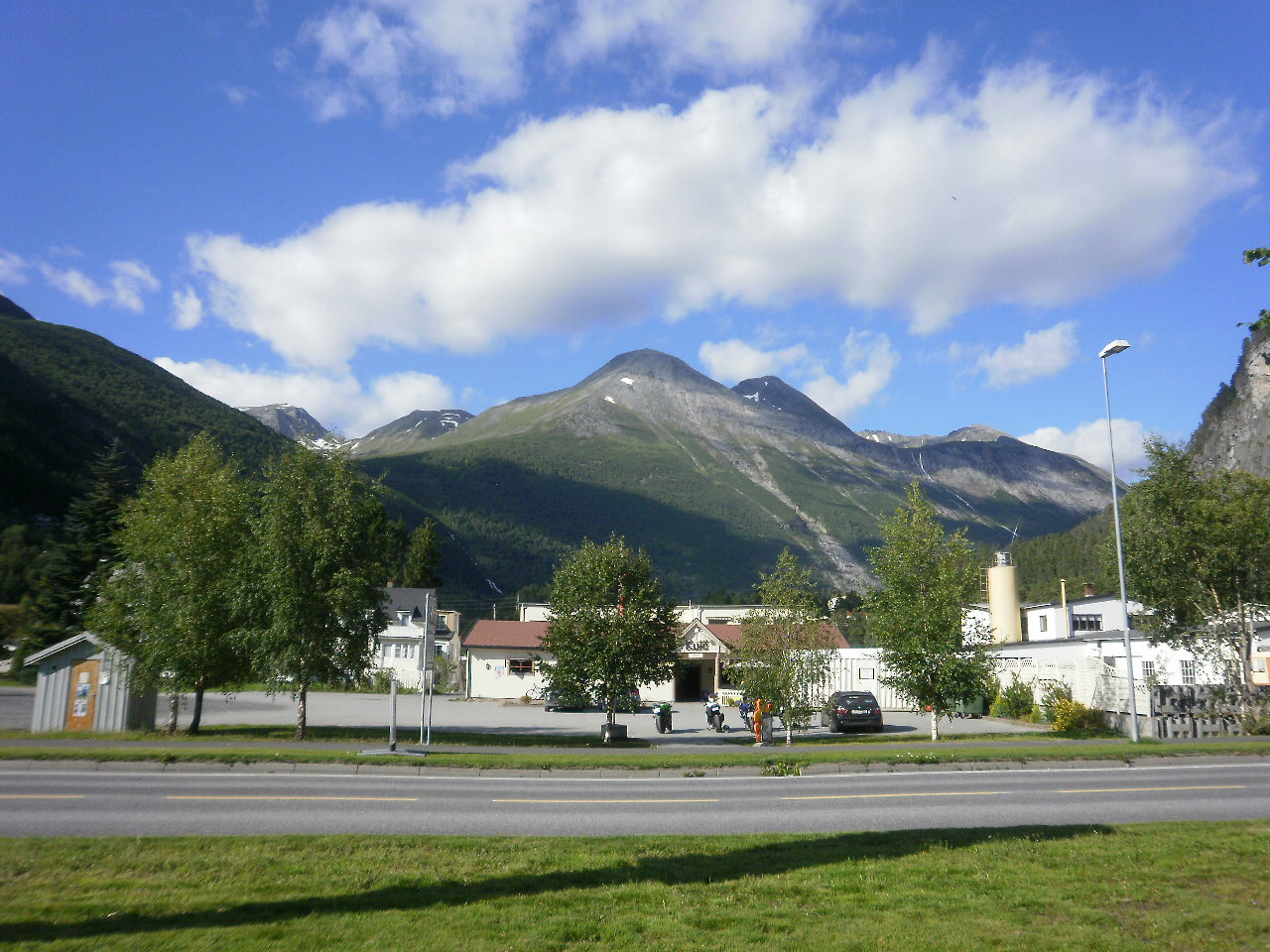 Mountains in Norway